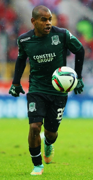 João Natailton Ramos dos Santos